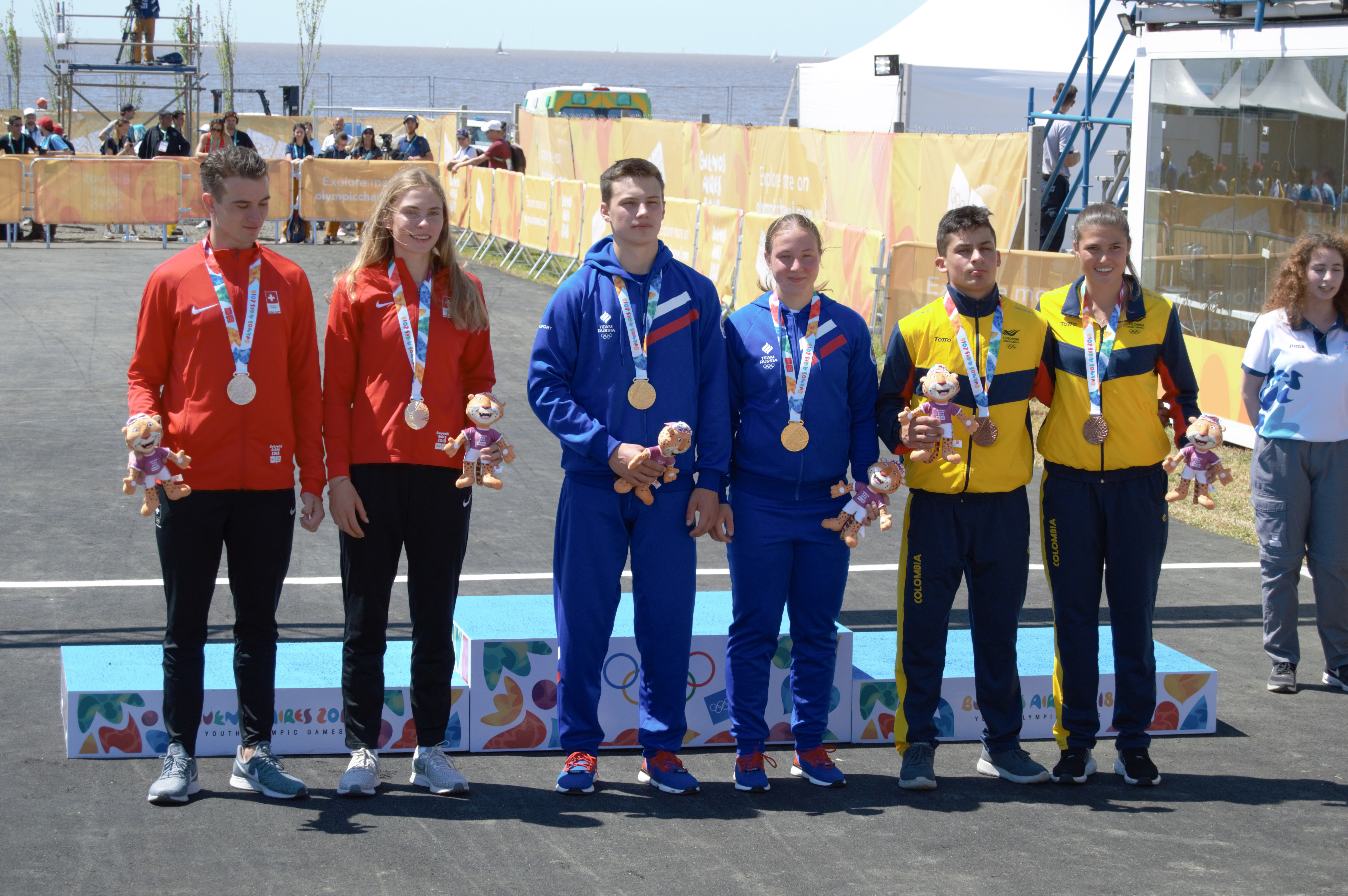 Victory ceremony of the BMX Racing tournament of the 2018 Summer Youth Olympics.